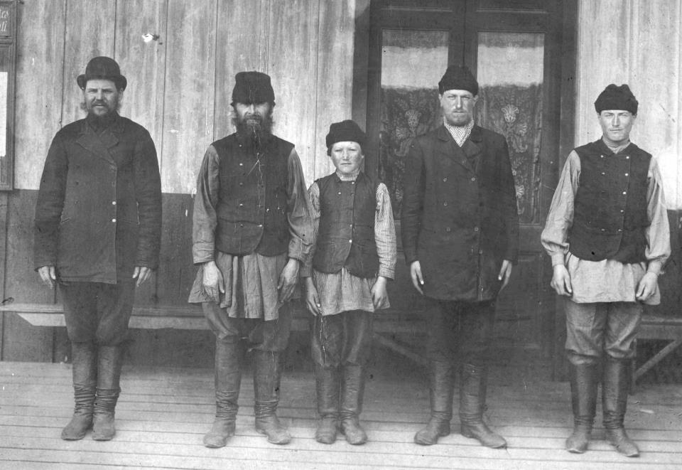 Buenos Aires, inmigrantes polacos en el antiguo Hotel de Inmigrantes, c. 1890.